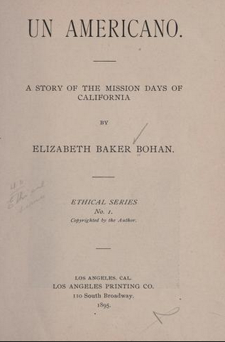 frontispiece of "Un Americano, a story of the mission days of California", by Elizabeth Baker Bohan (1895)